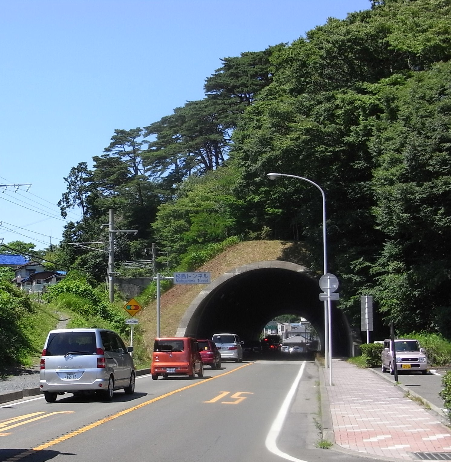 Matsushima Tunnel of Route 45 (National Highway 45) of Japan. Matsushima, Miyagi prefecture, Japan. Northward.